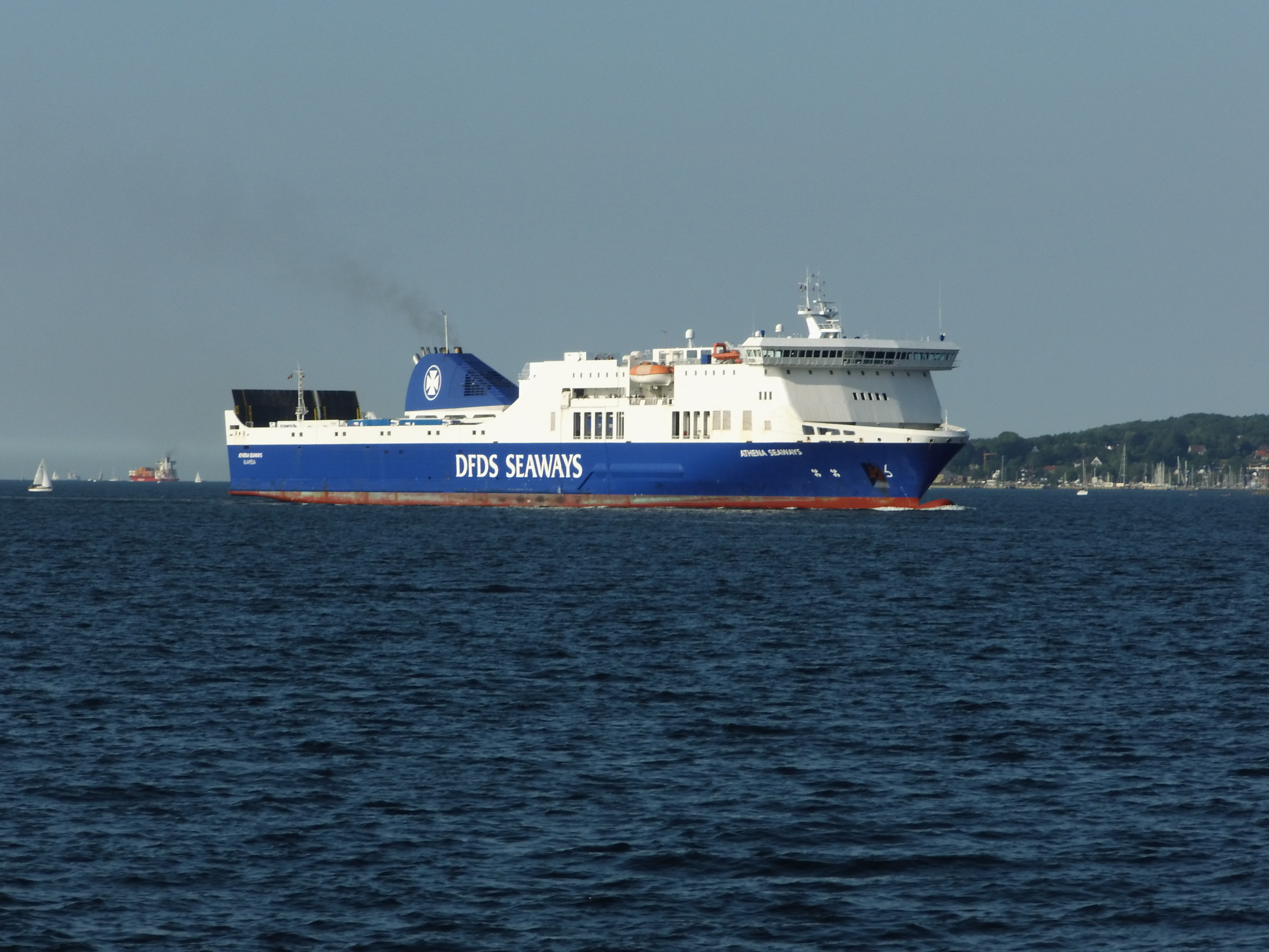 Athena Seaways entering Kiel harbour